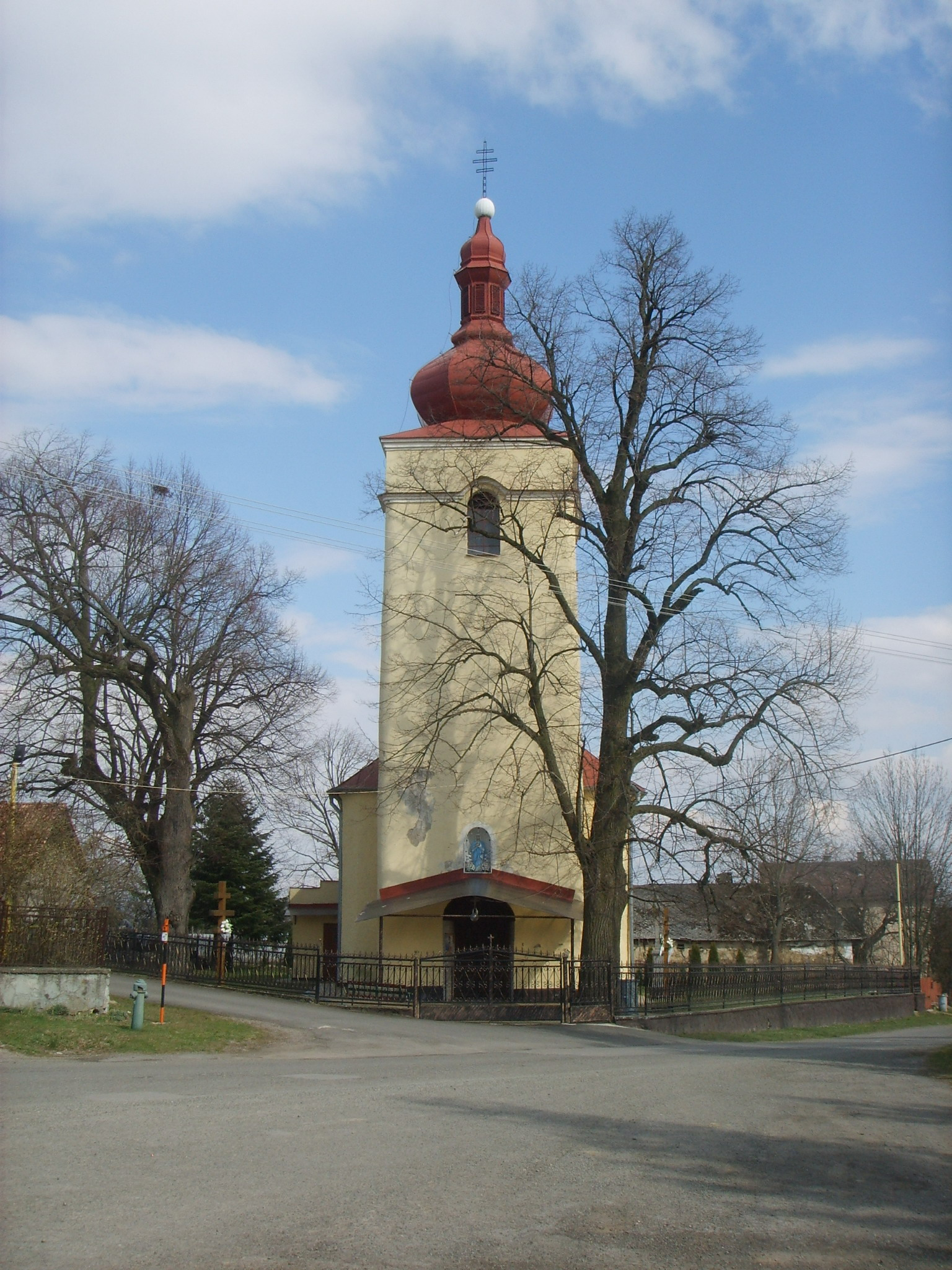 Greek-catholic church Cabov